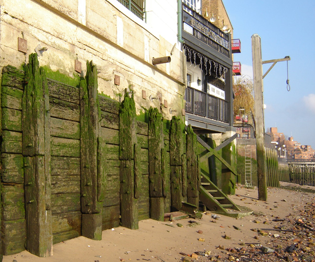 Thames foreshore at Wapping, Tower Hamlets, London, showing Execution Dock gibbet. The Prospect of Whitby is to the left. 6 January 2006. Photographer: Fin Fahey.